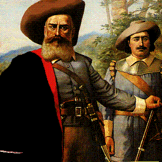 Domingos Jorge Velho by Benedito Calixto